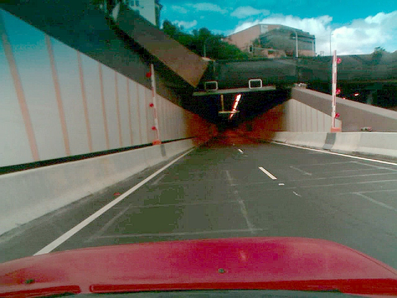 Southbound entrance to the Lane Cove Tunnel